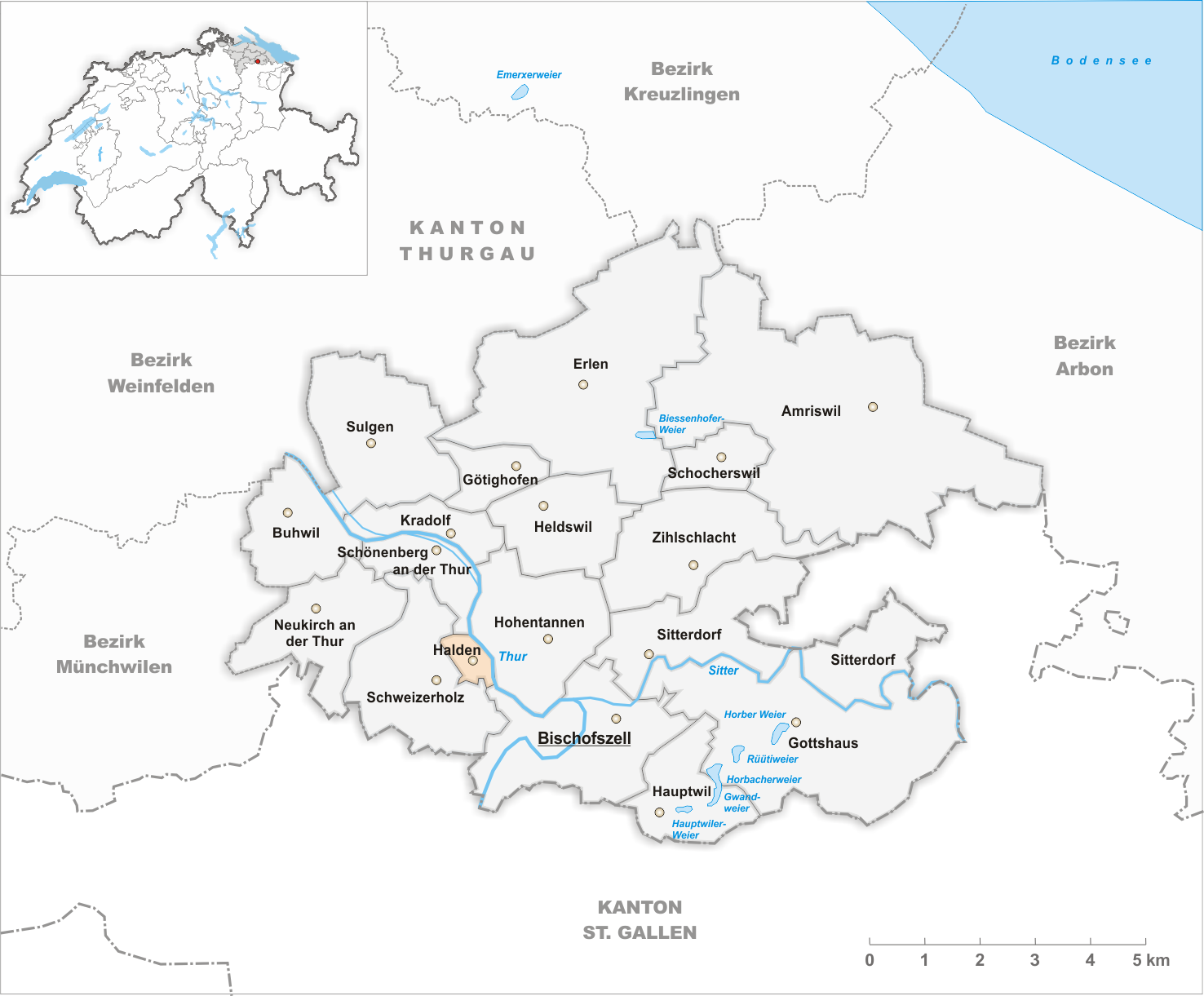 Municipality Halden